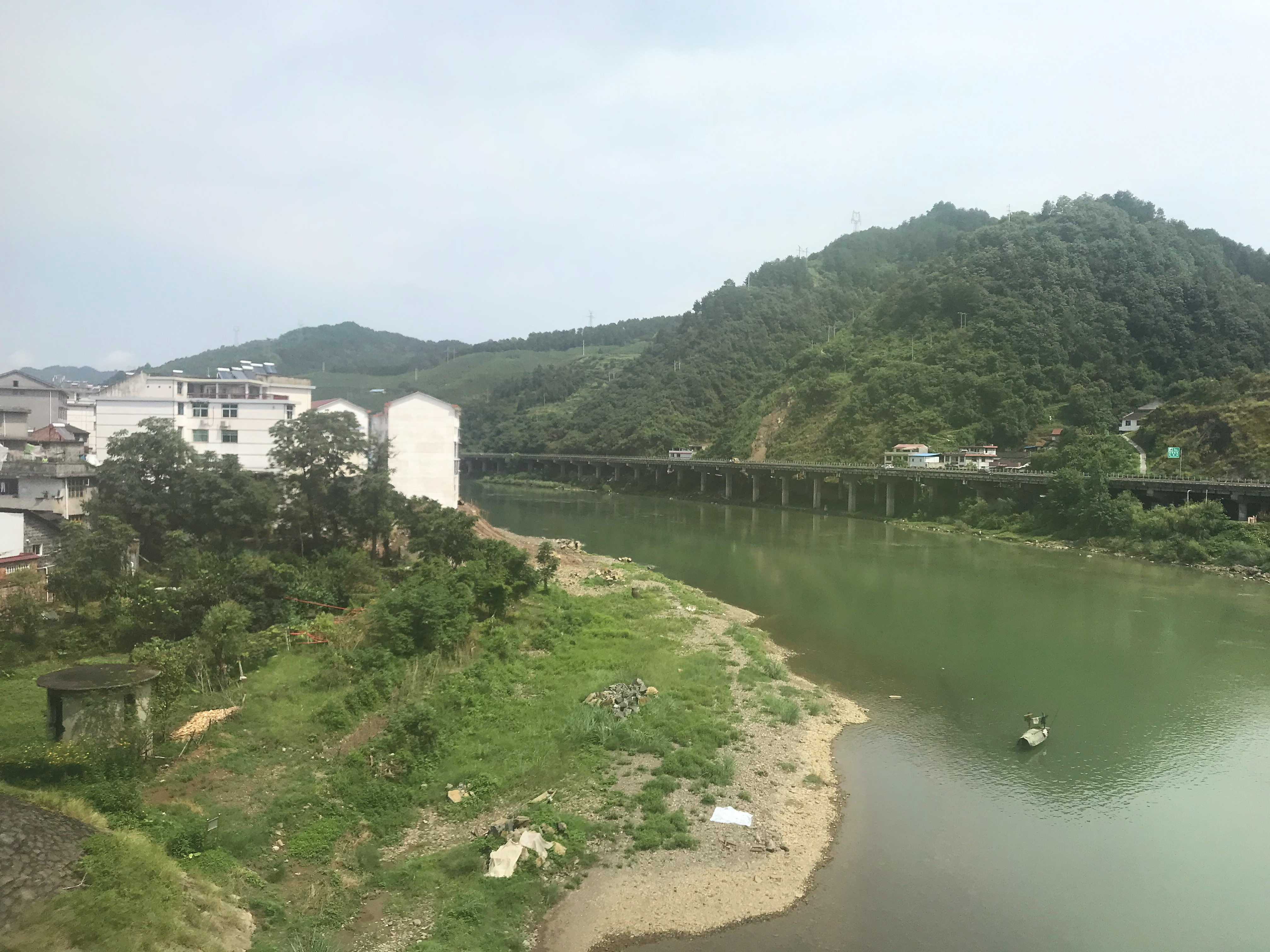 Goodbye to Hunan and GRGC